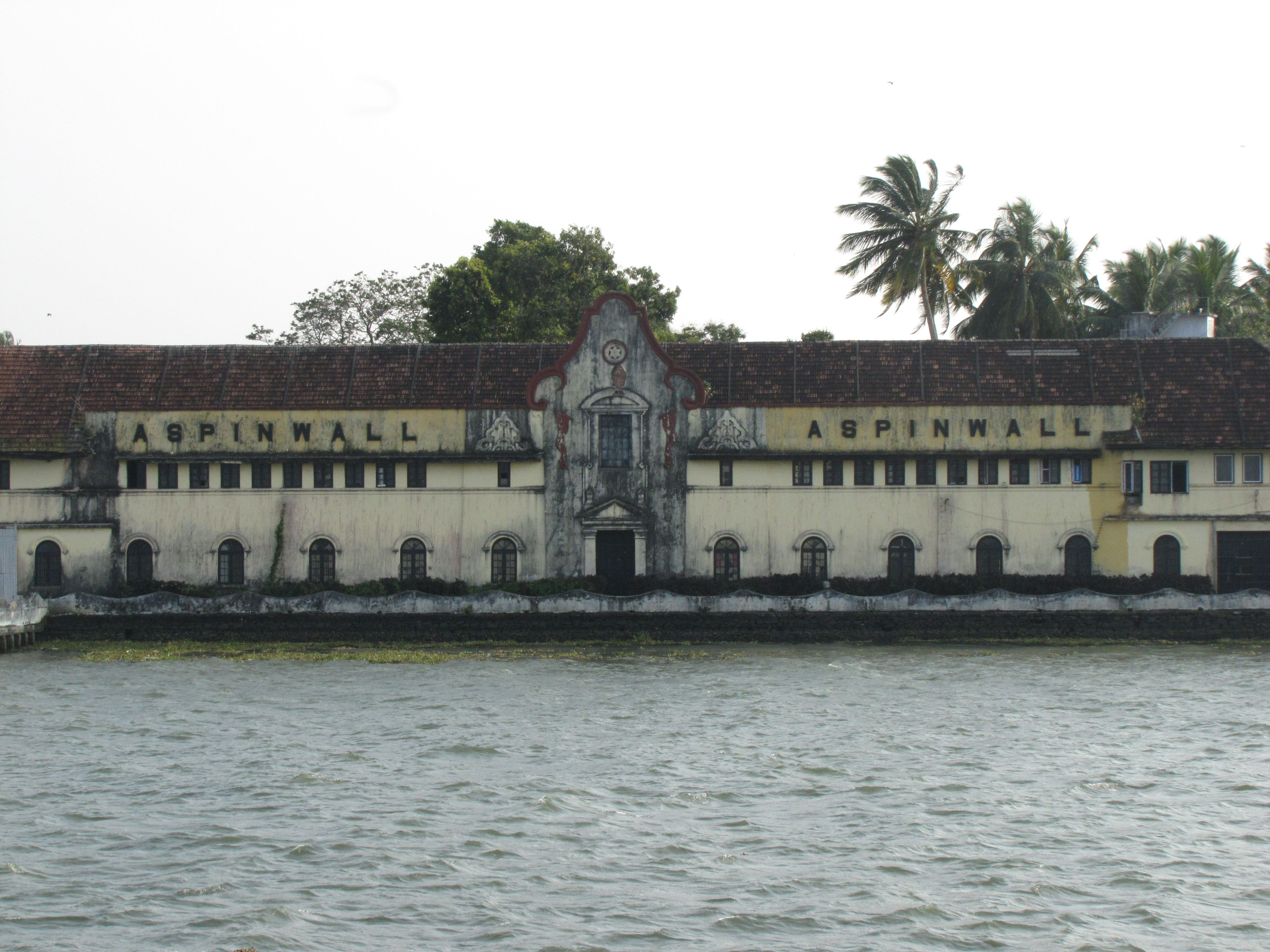 Aspinwall, Willington Island, Kochi